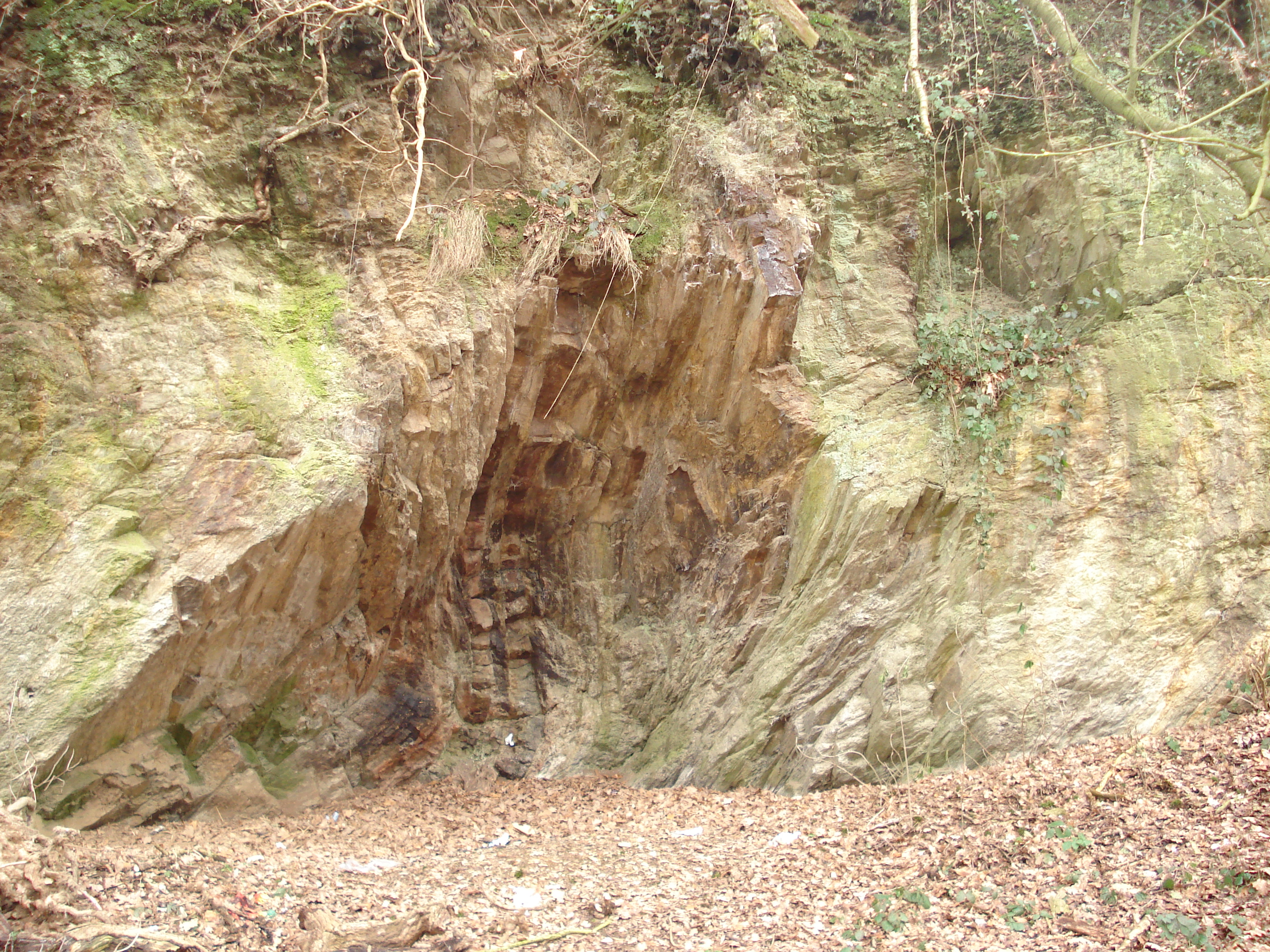 Quarry Sint-Pieters-Kapelle Ordovician Silurian